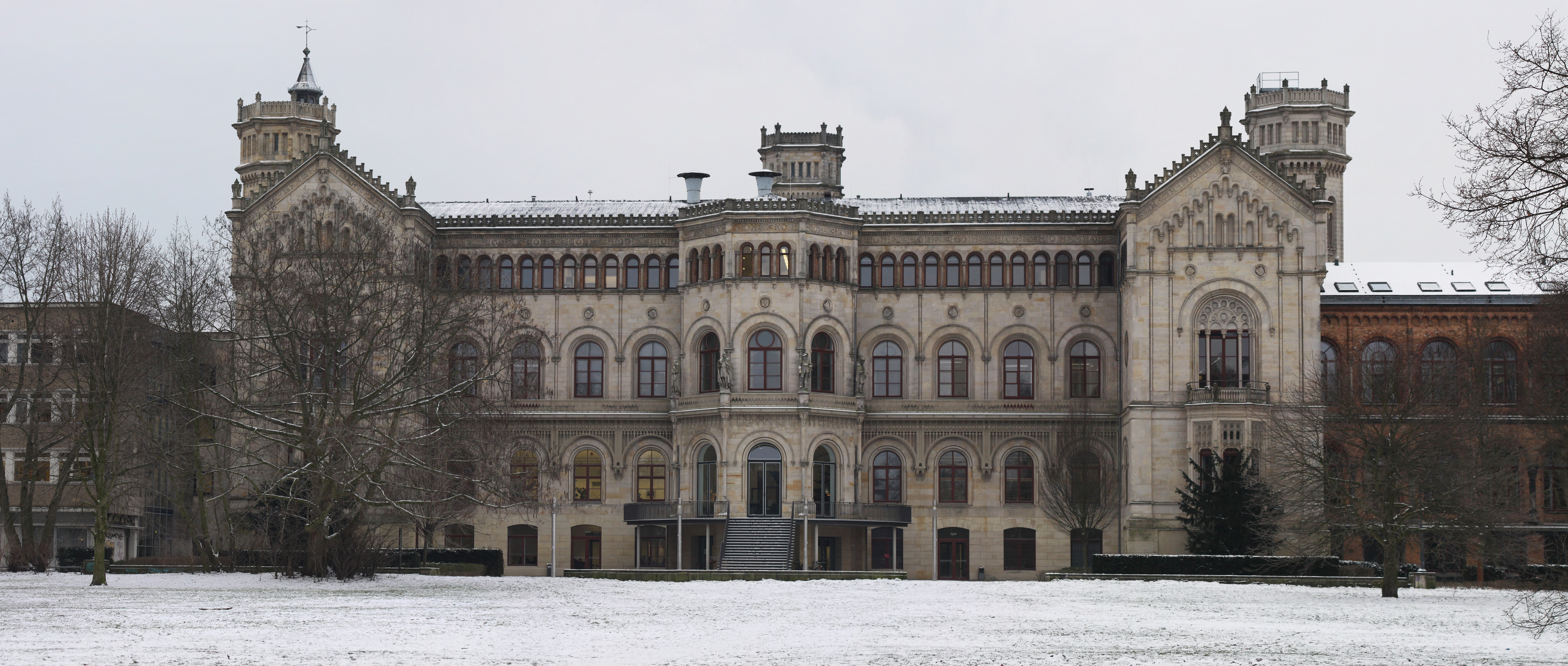 North side of the Welfenschloss in January 2013